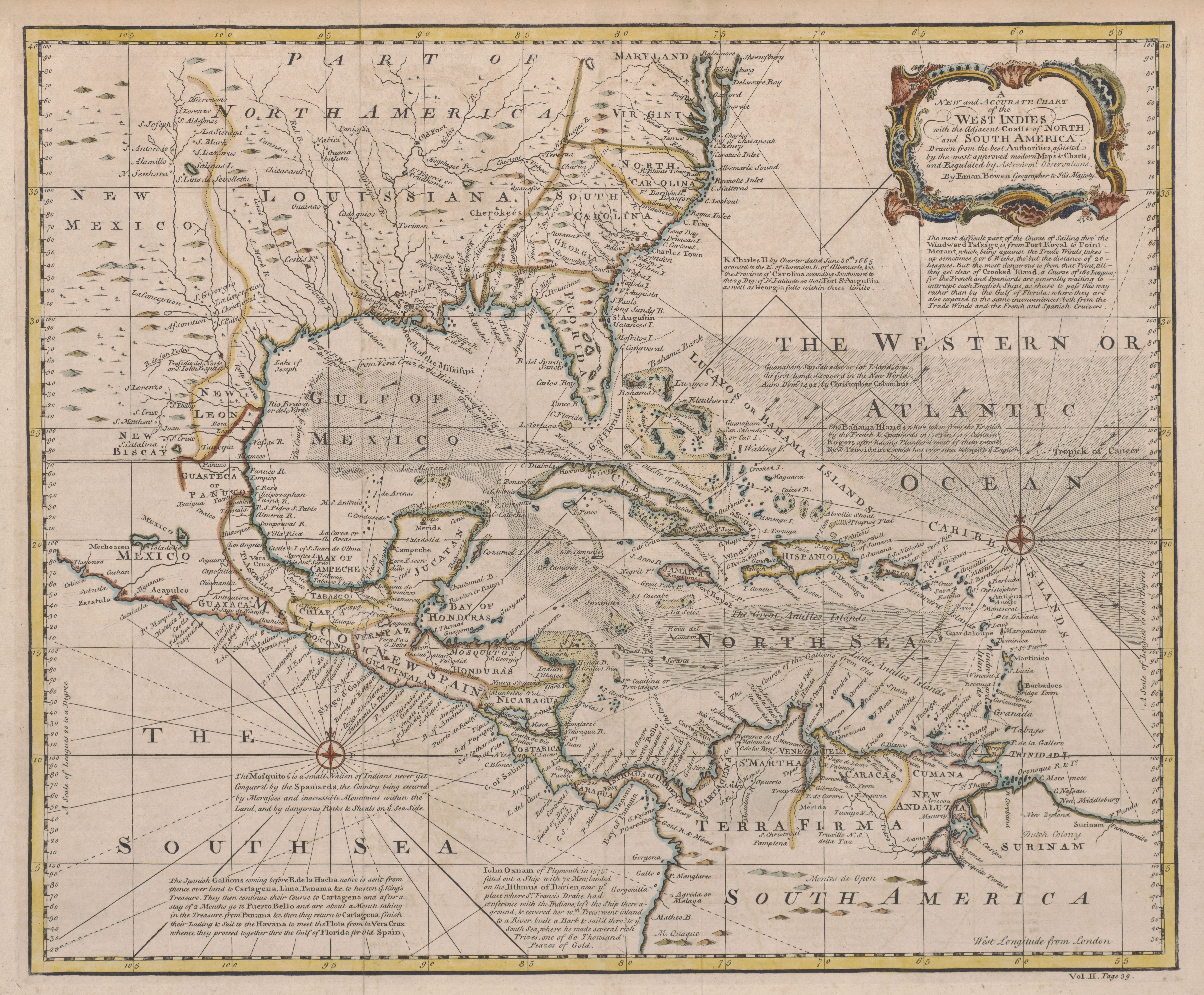 1720 Map of the West Indies with the Adjacent Coasts of North and South America (Bowen)